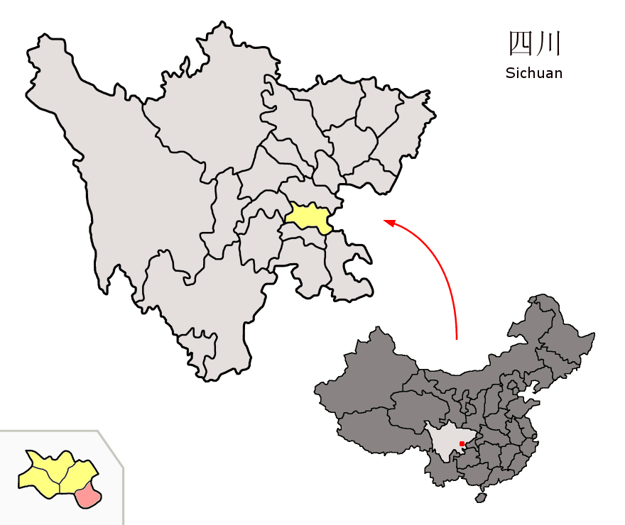 Location of Longchang County (pink) and Neijiang Prefecture (yellow) within Sichuan province of China Map drawn in october 2007 using various sources, mainly : Sichuan province administrative regions GIS data: 1:1M, County level, 1990 Sichuan Counties map from